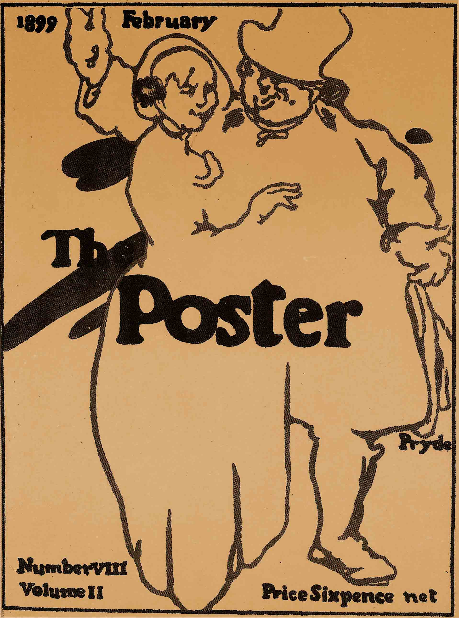 James Pryde, cover for The Poster, February 1899; "A Note on the Beggarstaff Brothers" by Charles Hiatt was published in this issue (pp. 44–53)